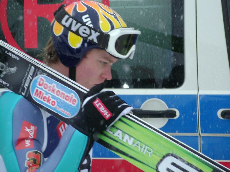 ski jumper Veli-Matti Lindstroem from Finland during the World Cup in Zakopane on 27-1-2008